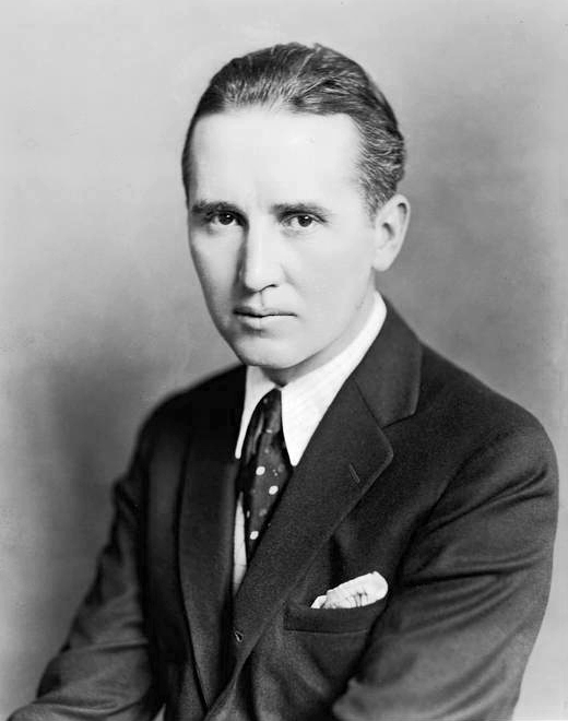 Portrait photograph of playwright George Kelly